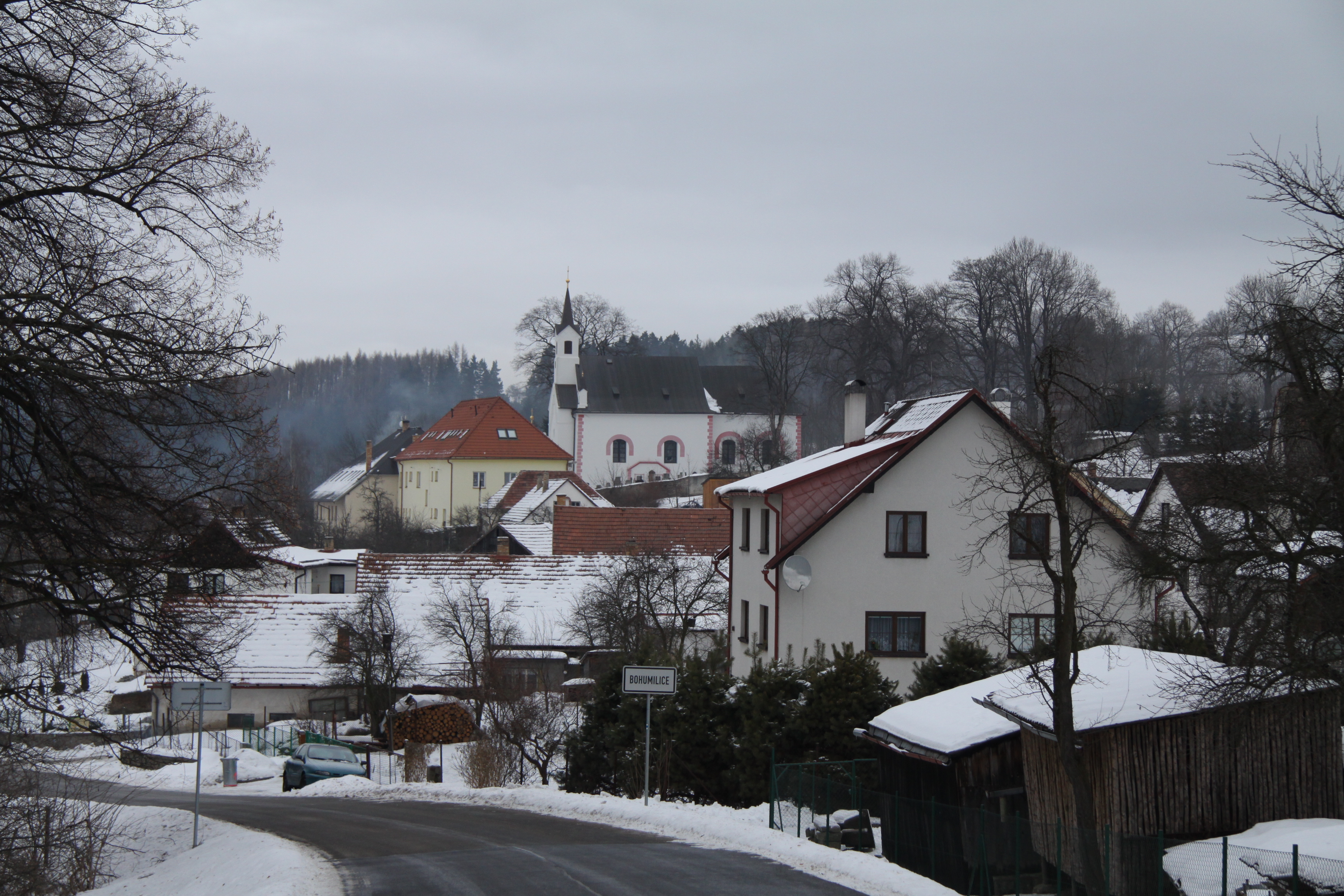 Bohumilice village, Prachatice District, Czech Republic - Google Maps - Google Earth